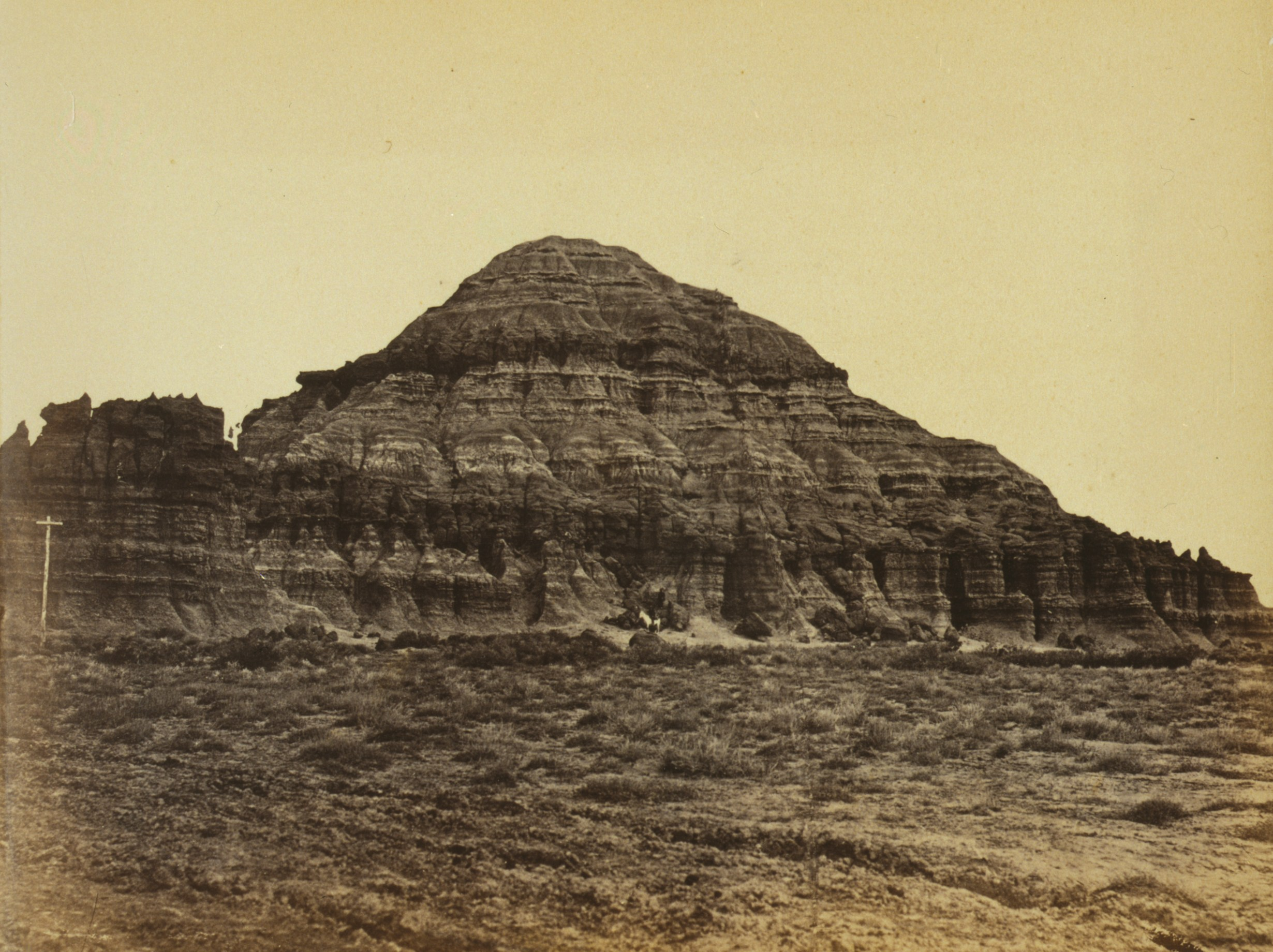 Albumen print of the Church Buttes in 1868 — located near Fort Bridger, Uinta County, Wyoming. Albumen print.